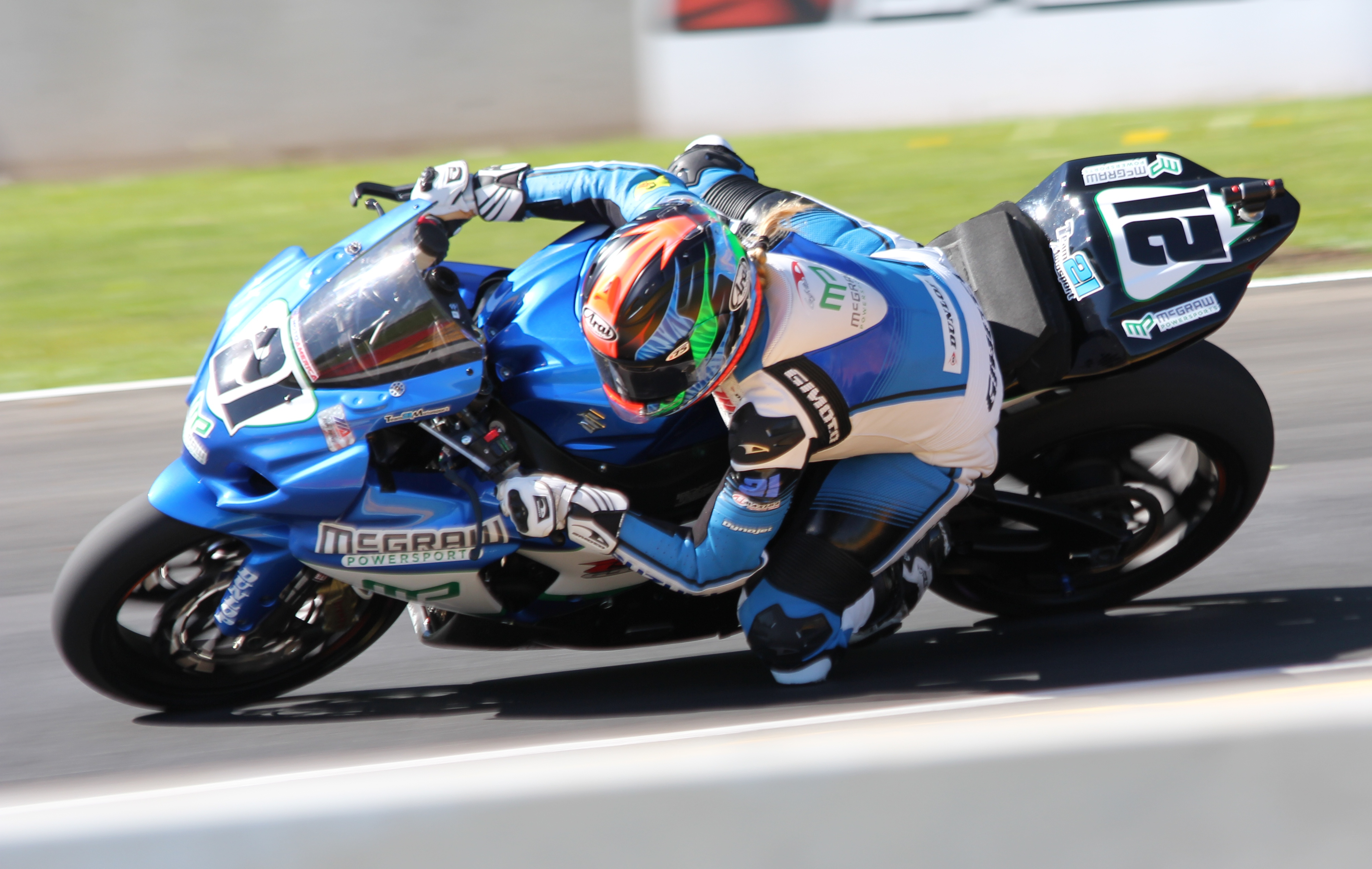 MotoAmerica AMA Superbike rider Elena Myers leaning left at Turn 6 at Road America.